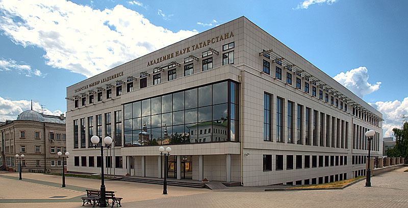 Tatarstan Academy of Sciences